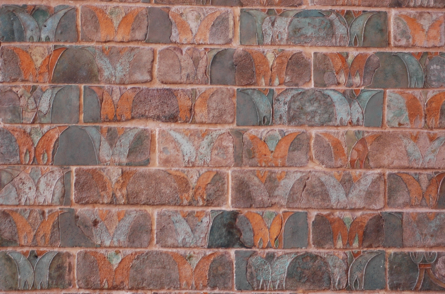 Decorative motives, detail from the griffins' frieze in Darius' palace at Susa. Glazed siliceous bricks, ca. 510 BC.